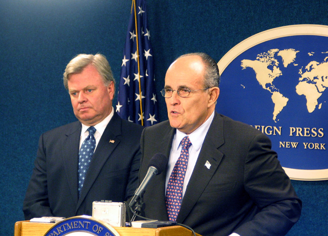 Rudolph Giuliani, former Mayor of New York City and Thomas Von Essen, former Fire Dept. Commissioner of New York City at the New York Foreign Press Center Briefing on "New York City After September 11, 2001."